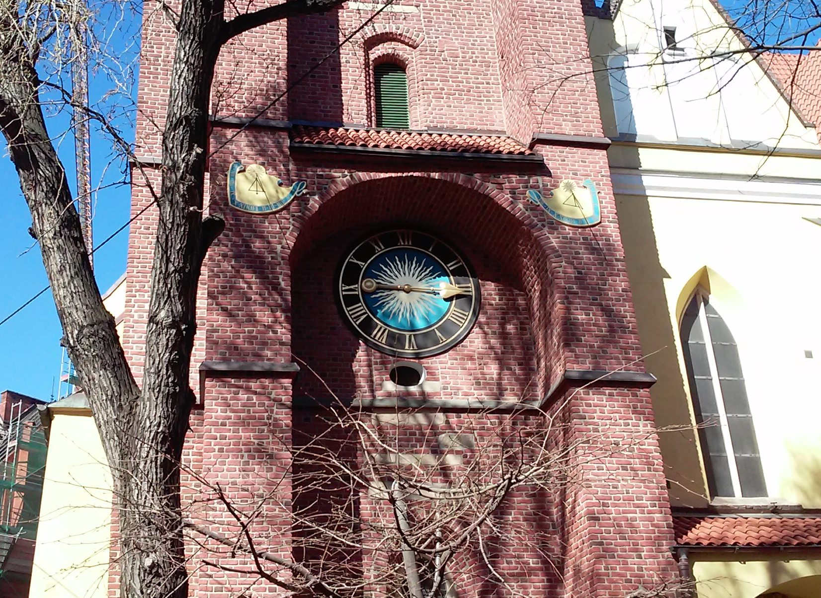 Noodle/Dumpling Clock in a tower of the orthodox cathedral in Wrocław.